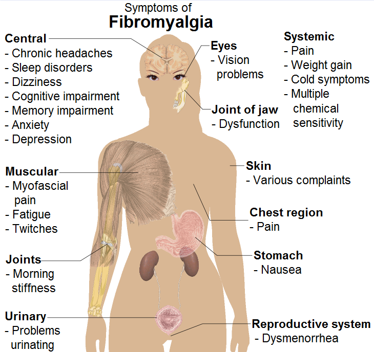 Common signs and symptoms of fibromyalgia. (See Wikipedia:Fibromyalgia#Signs and symptoms). Model: Mikael Häggström. To discuss image, please see Template talk:Human body diagrams References Retrieved on April 19, 2009